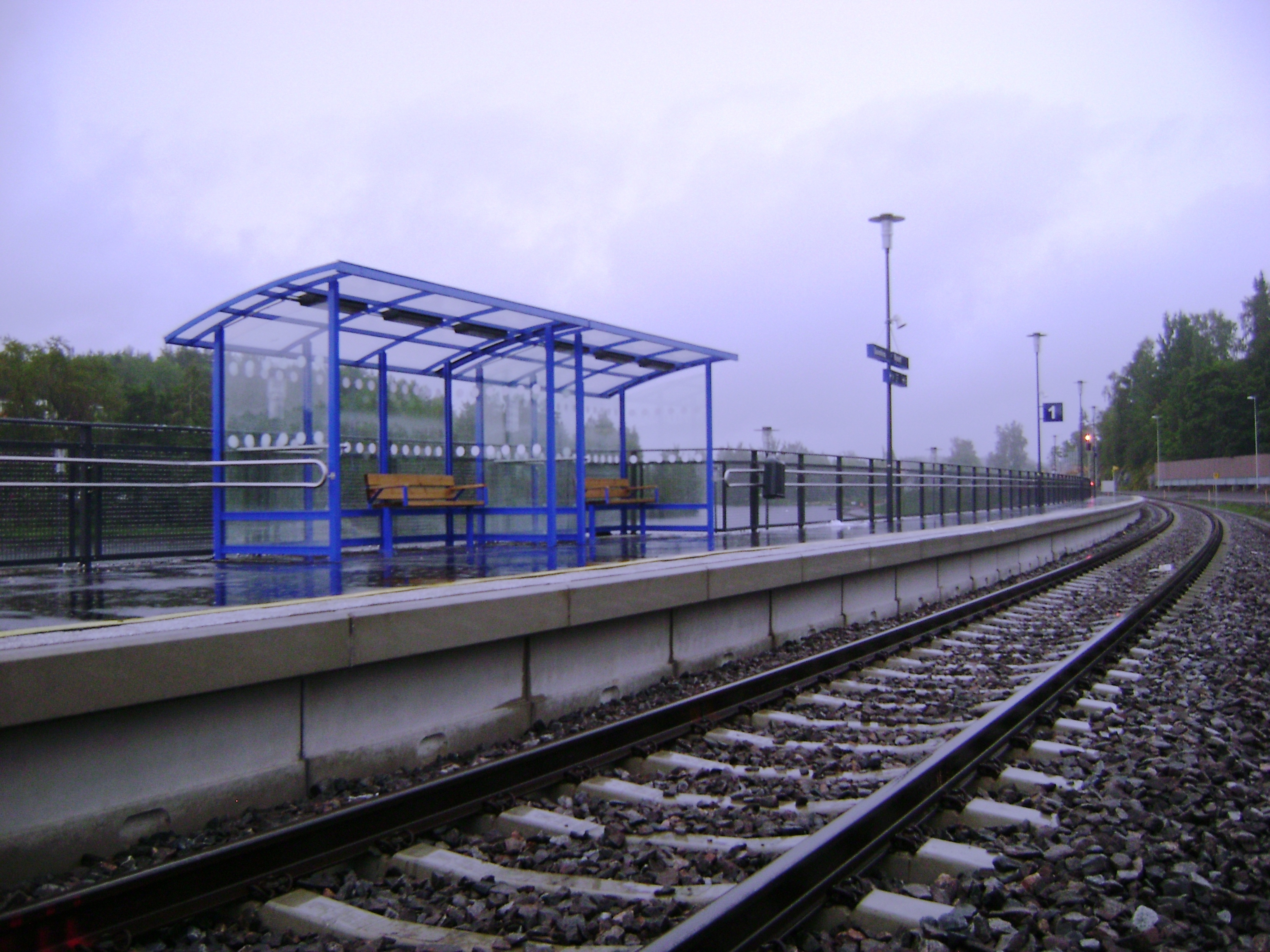 New Savonlinna railway station, opened in June 2012.